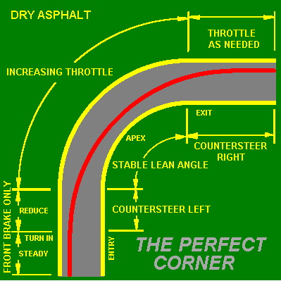 Countersteering is the only way to steer a motorcycle